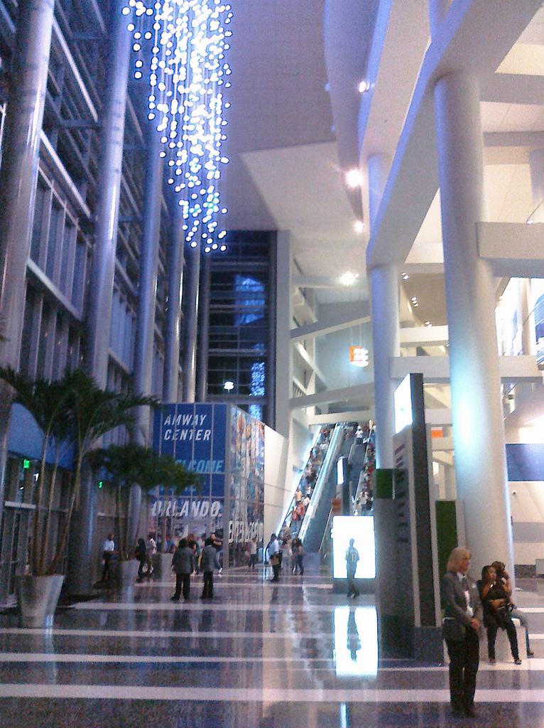 Amway Center